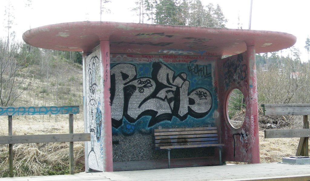 Auli station on the Kongsvinger line (Akershus, Norway)